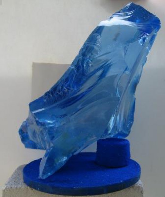 Sculpture made with Baccarat crystal by the artist Alain Husson-Dumoutier.